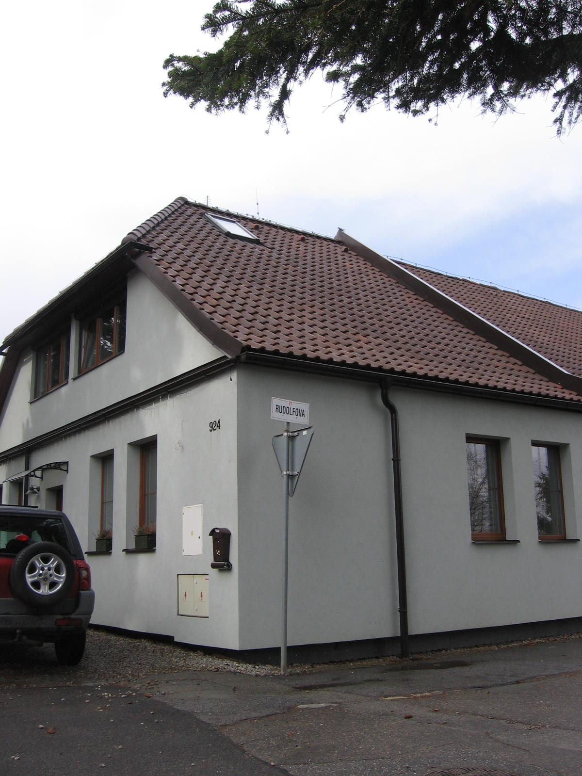 Former Barracks of the 62nd Motor Rifle Regiment in Prachatice.